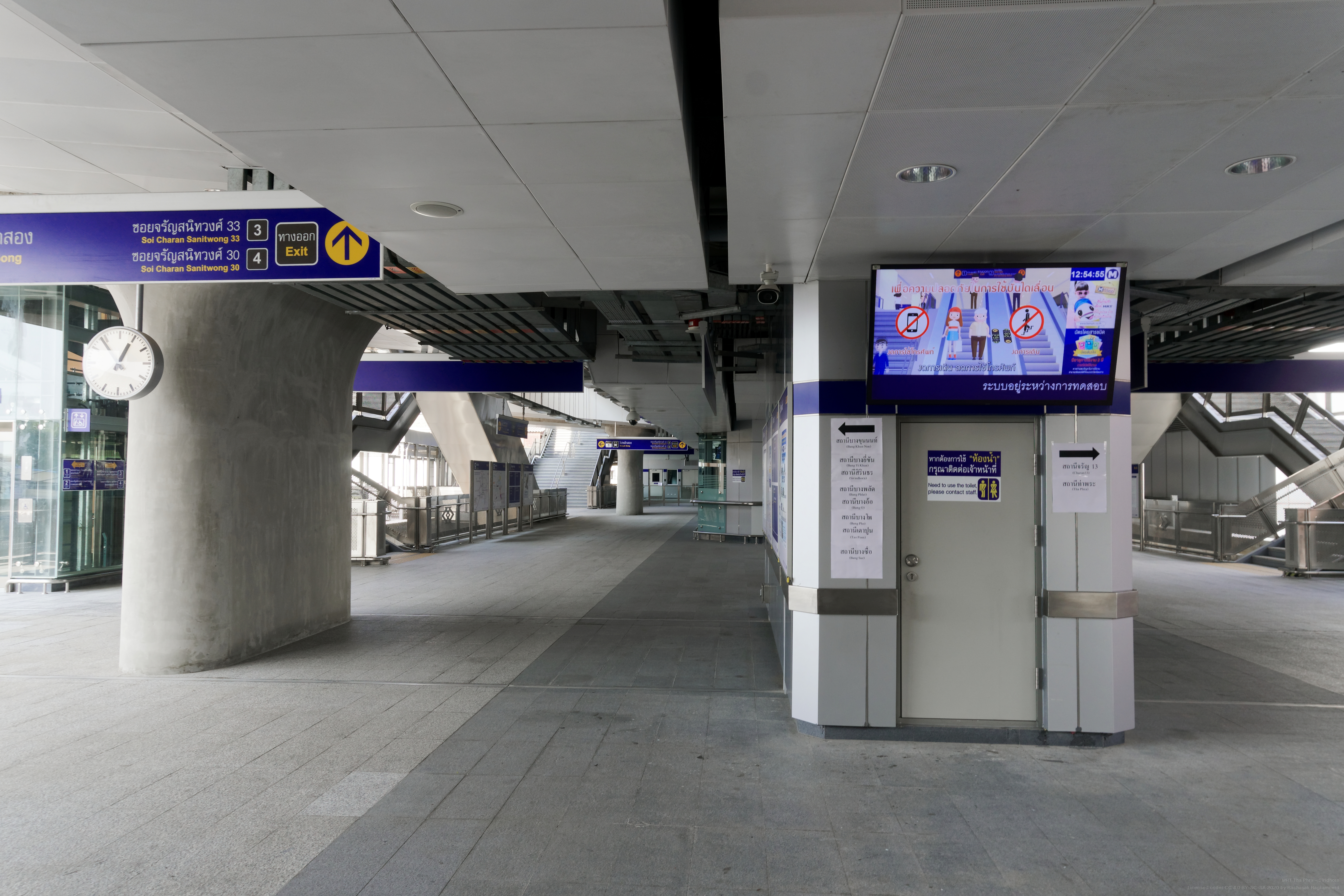 MRT Fai Chai – Ticket office floor